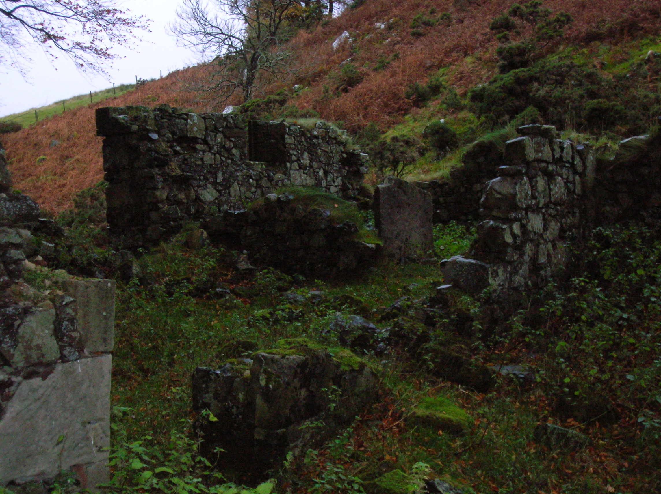 The old byre and outbuildings at Underhill Farm, Loudoun Hill, East Ayrshire, Scotland